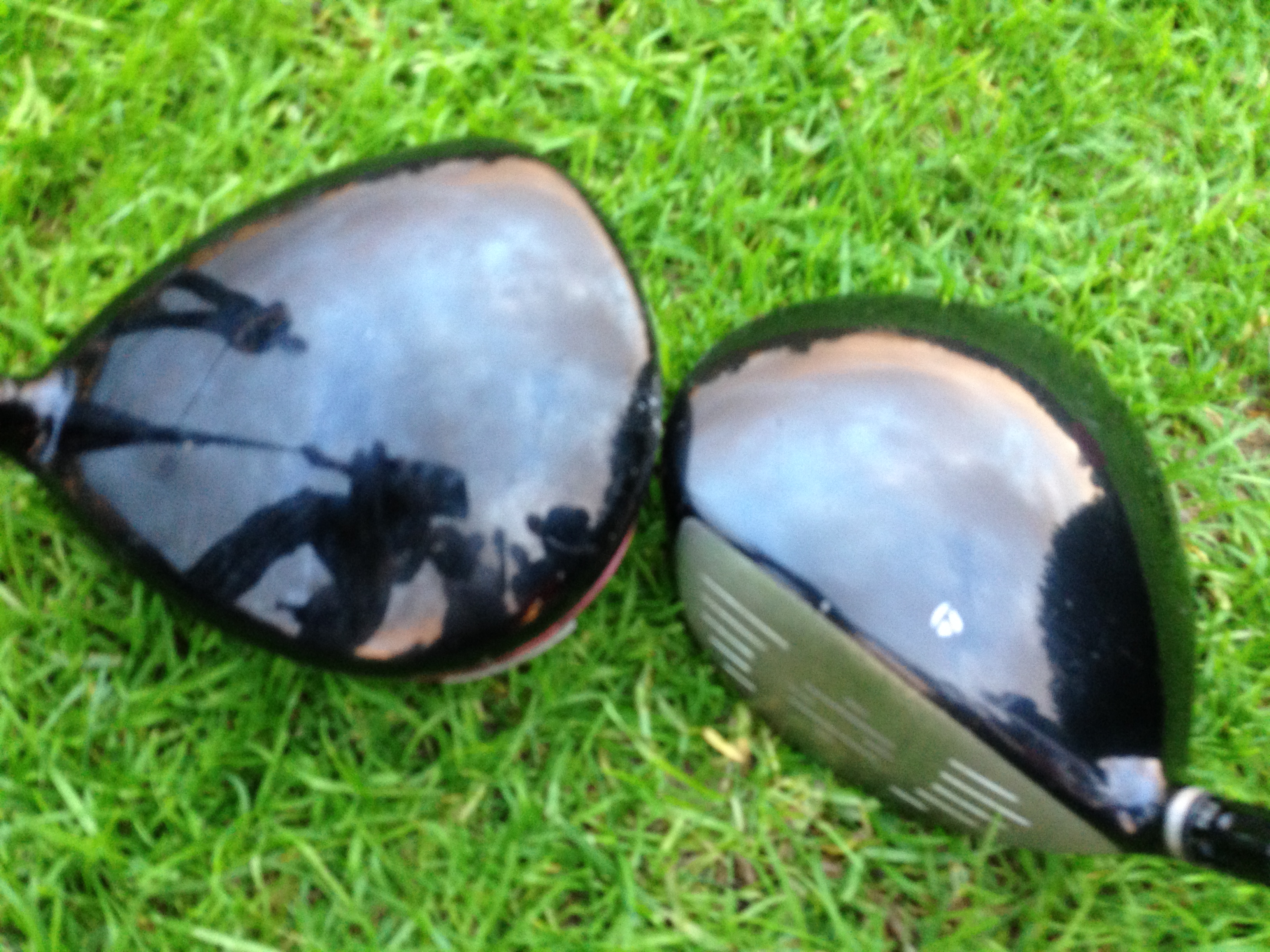 driver and 3 wood